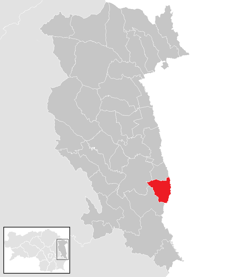 district Hartberg-Fürstenfeld